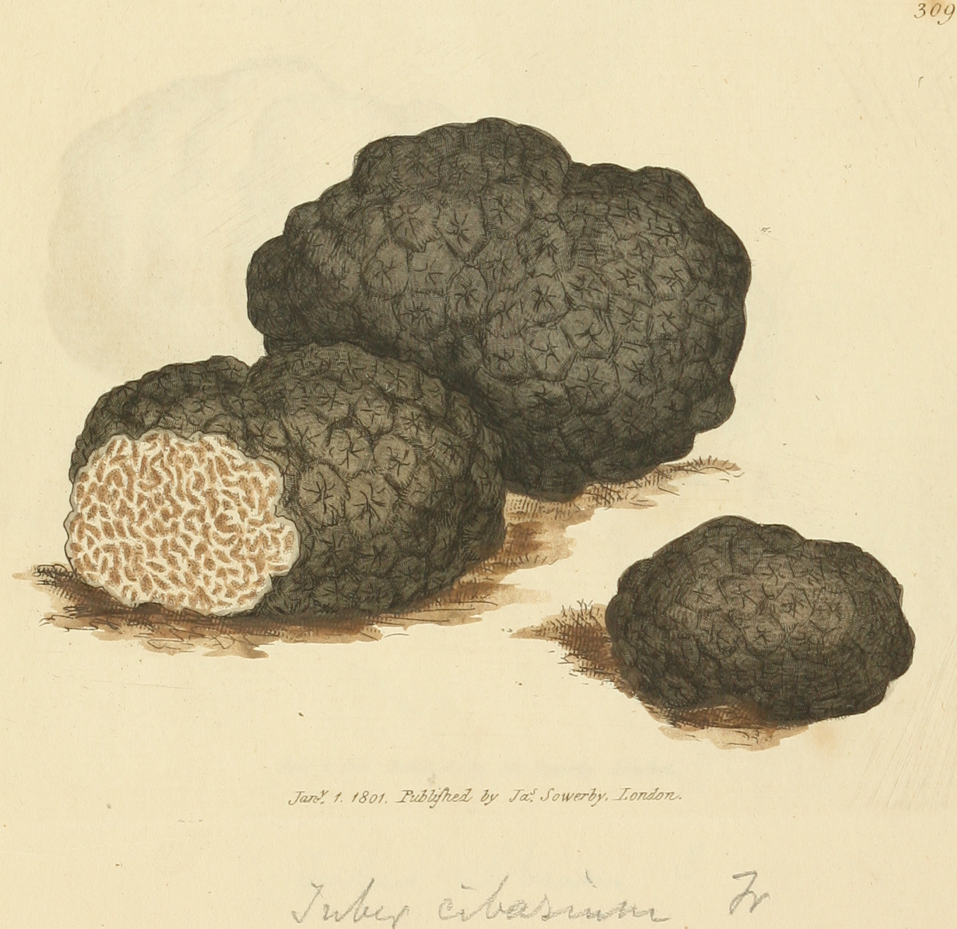 This is a plate from James Sowerby's Coloured Figures of English Fungi or Mushrooms.